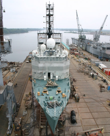 USCGC Tampa (WMEC 902) in drydock